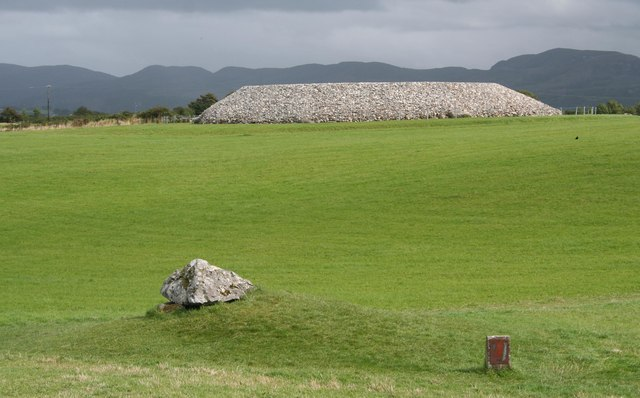 Carrowmore Megalithic Tomb Cemetery. This fantastic site is surrounded by mountain ranges and was probably chosen as a cemetery. About 80 small tombs were here before the magnificent massive stone structure appeared.